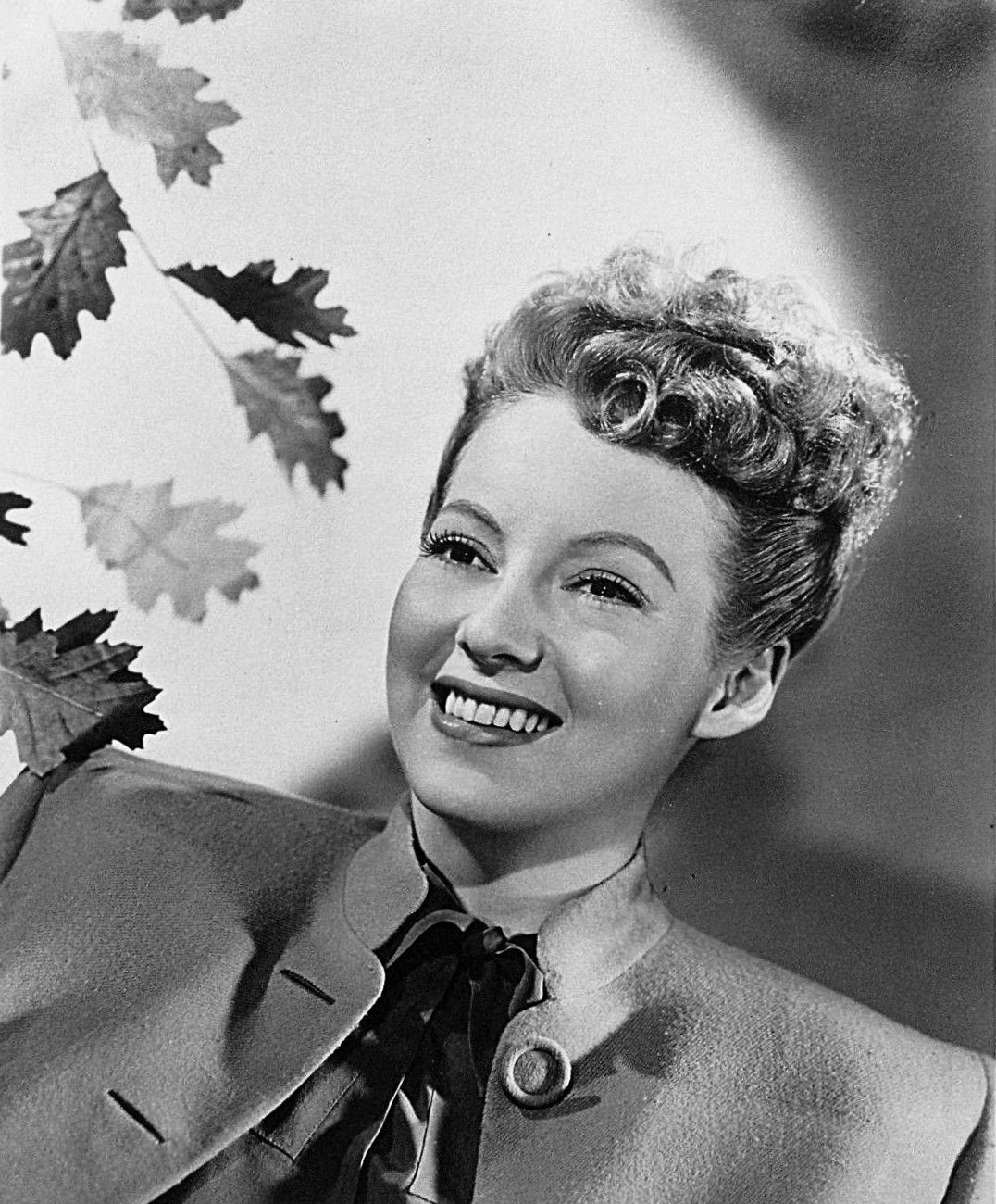 Publicity photo of Evelyn Keyes